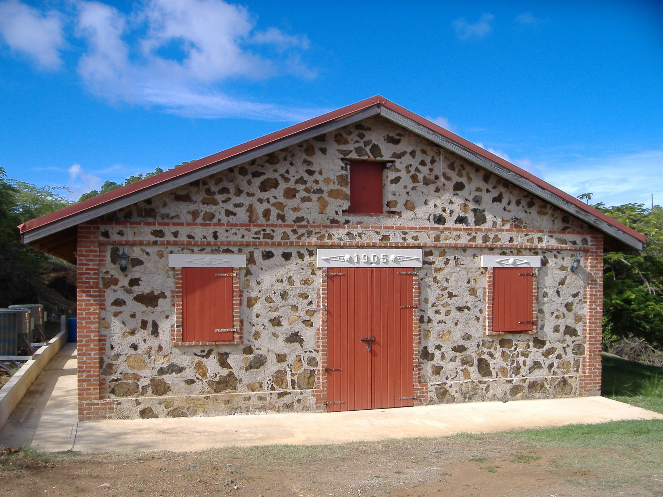 Early 20th Century warehouse, now currently a museum, in Culebra, Puerto Rico.